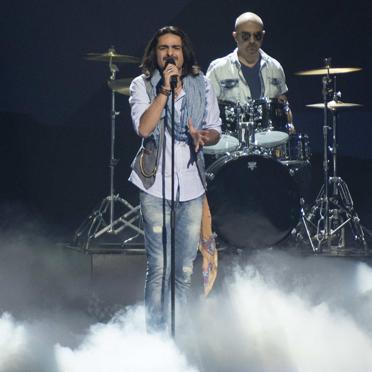 Dorians representing Armenia with the song "Lonely Planet" during the second dress rehearsal of the second semi final of the Eurovision Song Contest 2013 in Malmö. (Help translate this text)